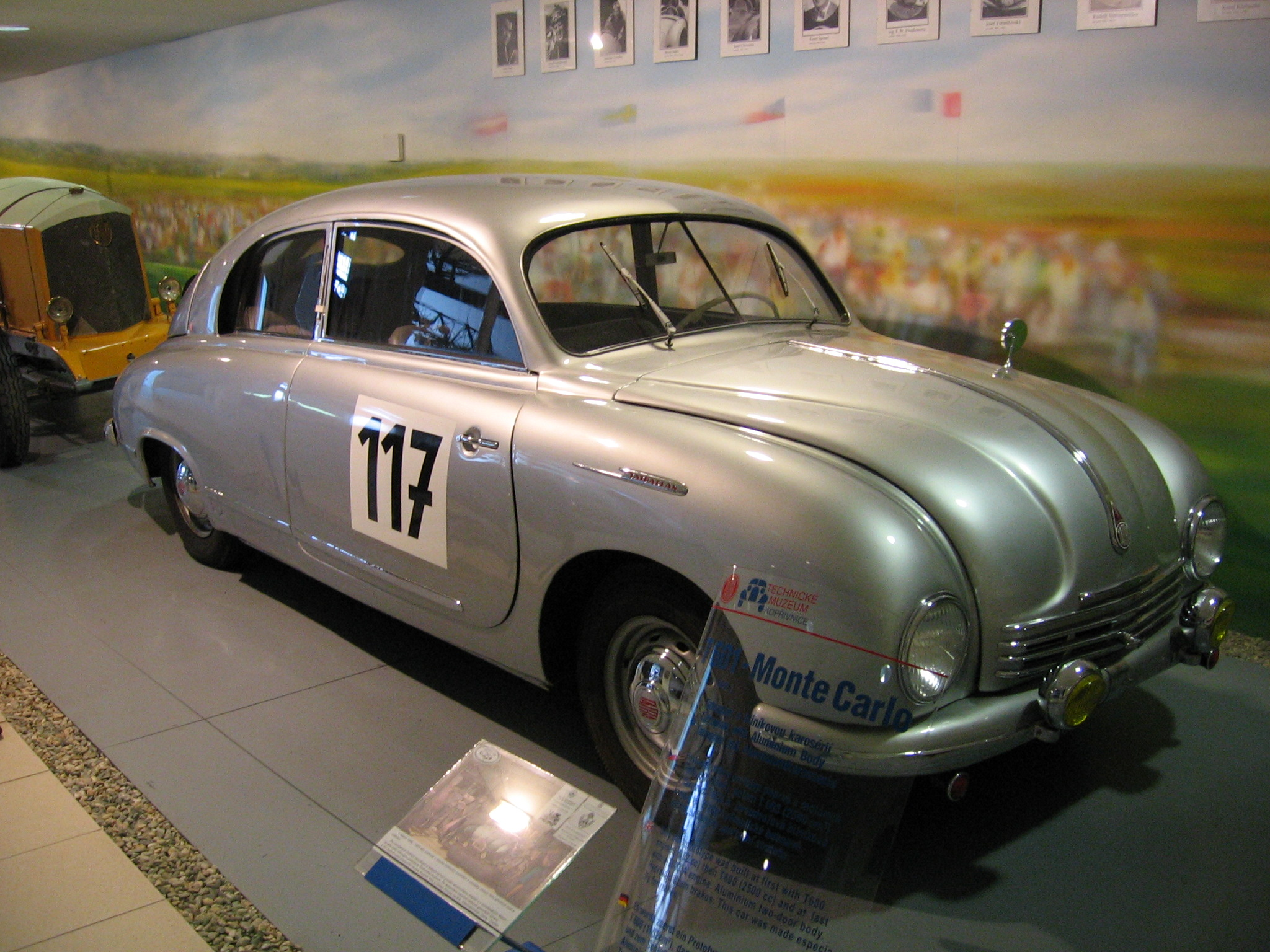 Tatra 601 constructed for Rallye Monte Carlo 1949